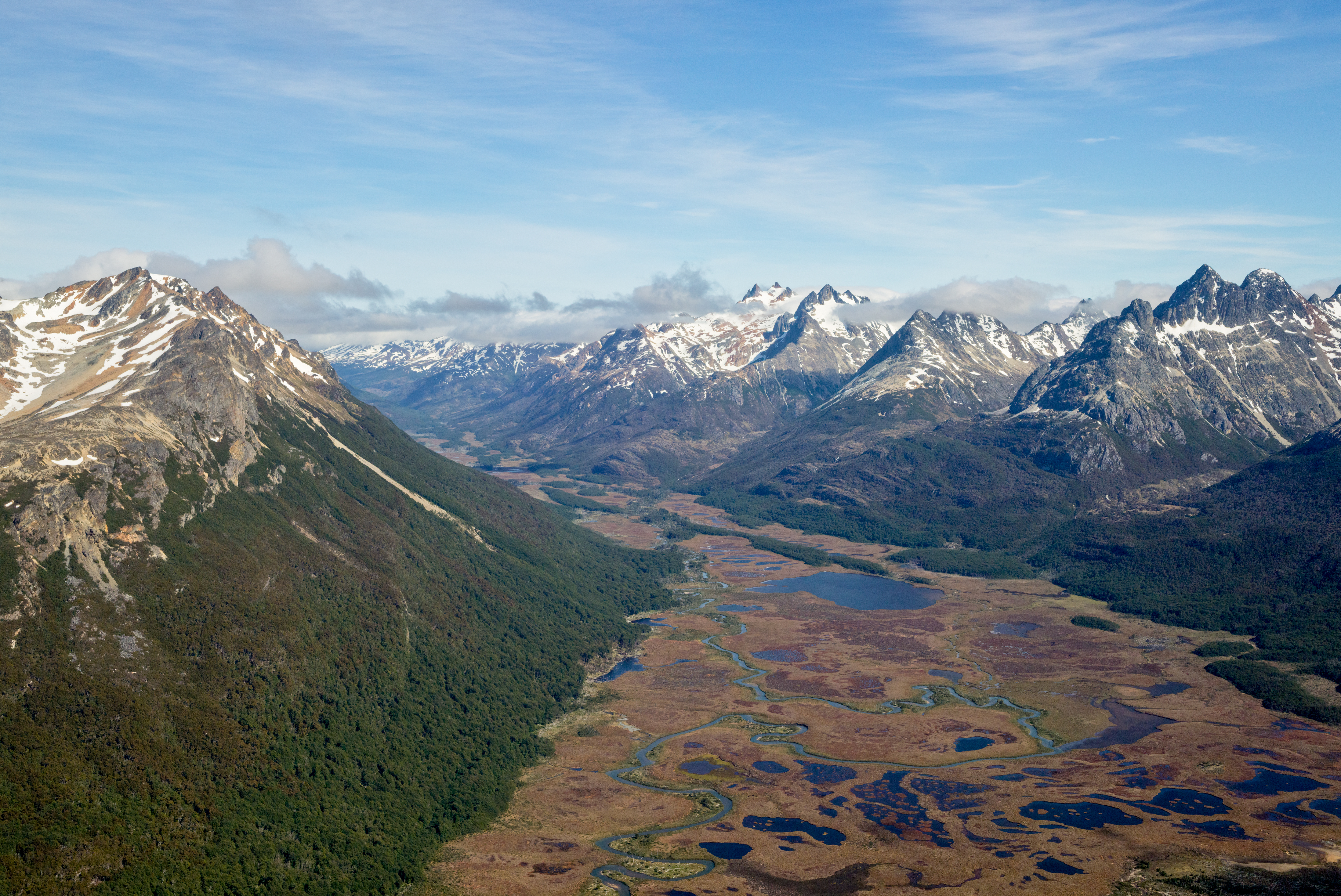 Aerial view of Valle Carbajal (terminus) in the Southern Andes, Tierra del Fuego Province, Argentina (Fuegian Andes within a 12 miles radius of Ushuaia)